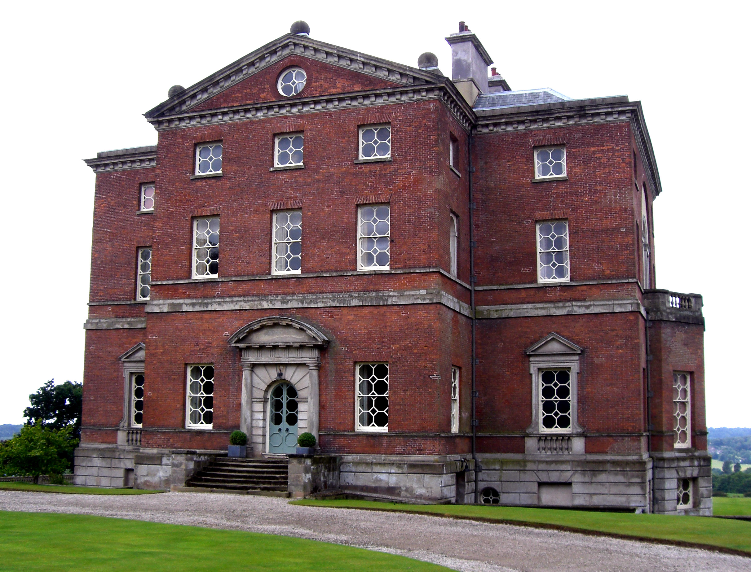 Photograph of Barlaston Hall